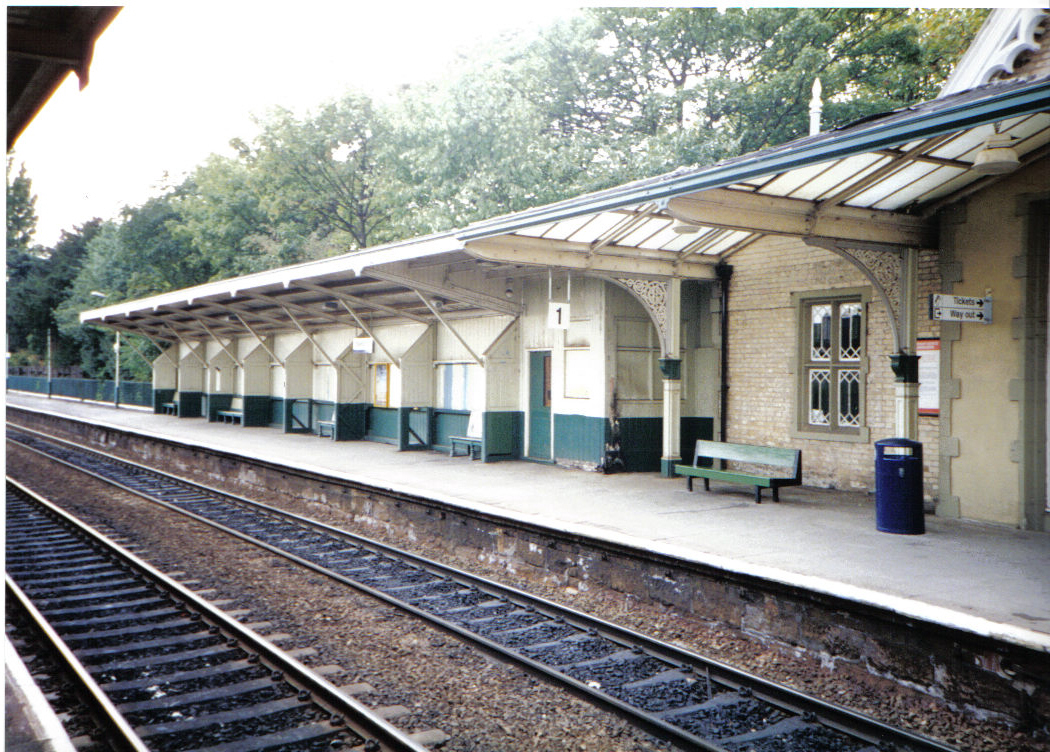 Photograph of Beeston Station by Andrew Abbott